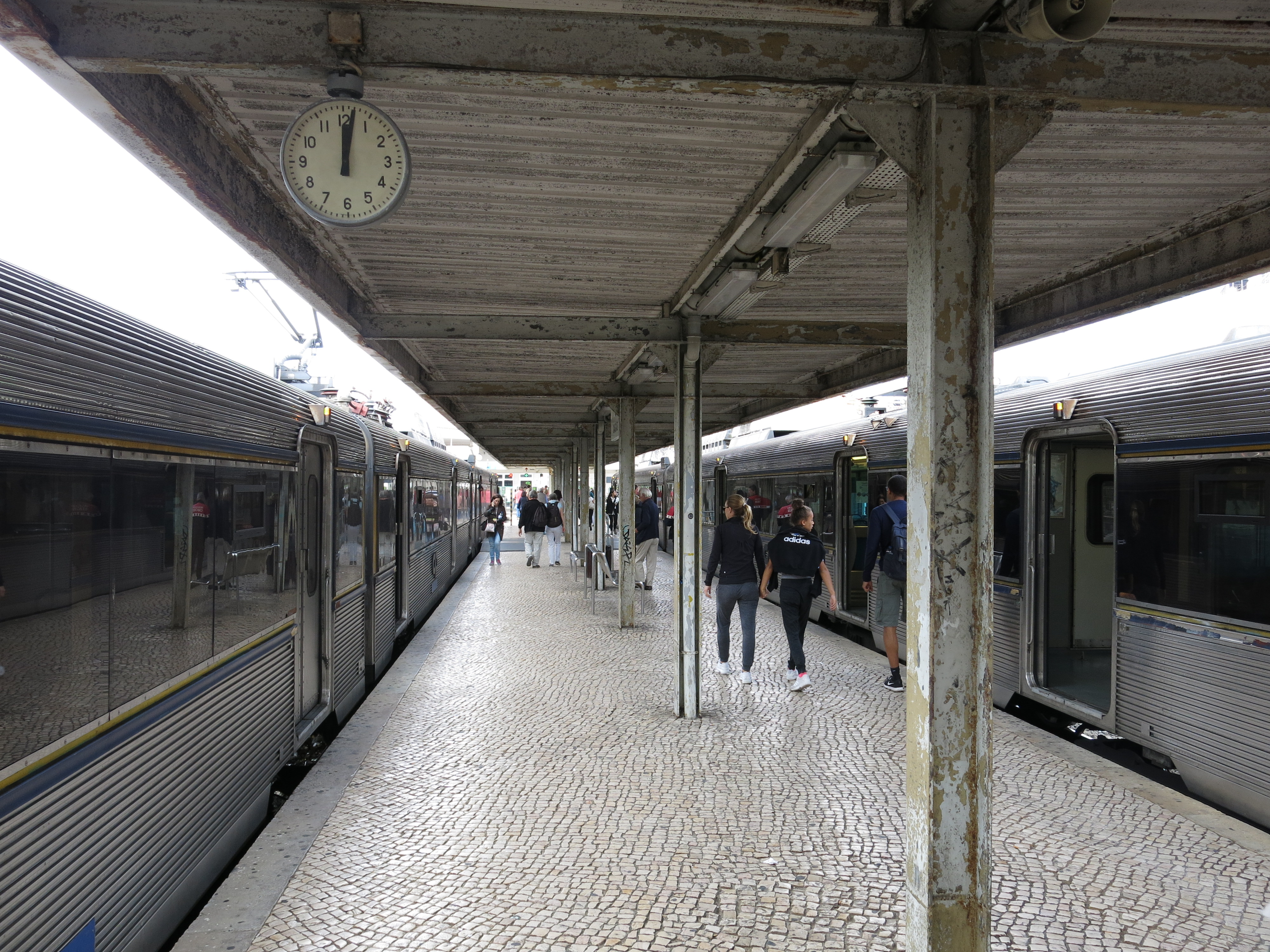 Cascais train station, Portugal